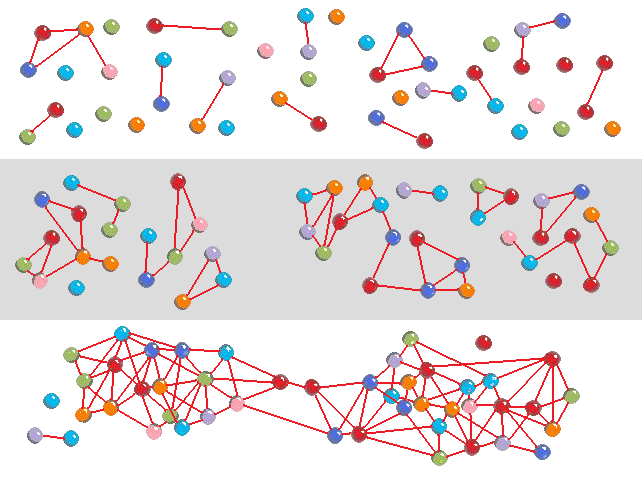 Stages in the self-organization of a network, based on Nagler, J., Levina, A., & Timme, M. (2011). Impact of single links in competitive percolation, Max Planck Institute for Dynamics and Self-Organization